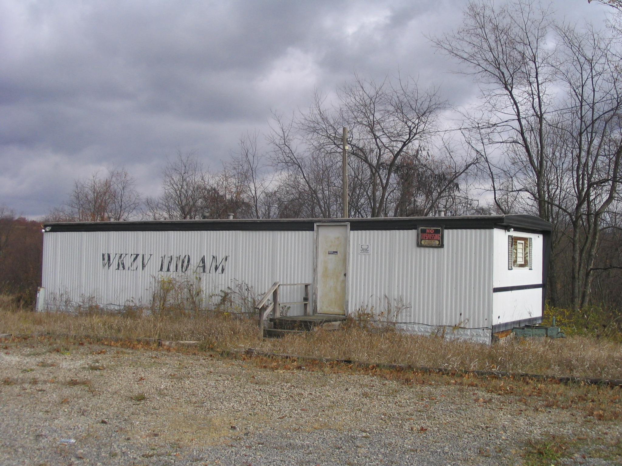 WKZV's present transmitter building and original studio location until the 1980s on Whitetail Drive.Trailer for WKZV